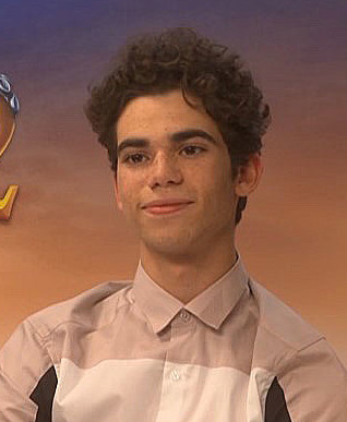 Dove Cameron and Cameron Boyce talking about Descendants 2